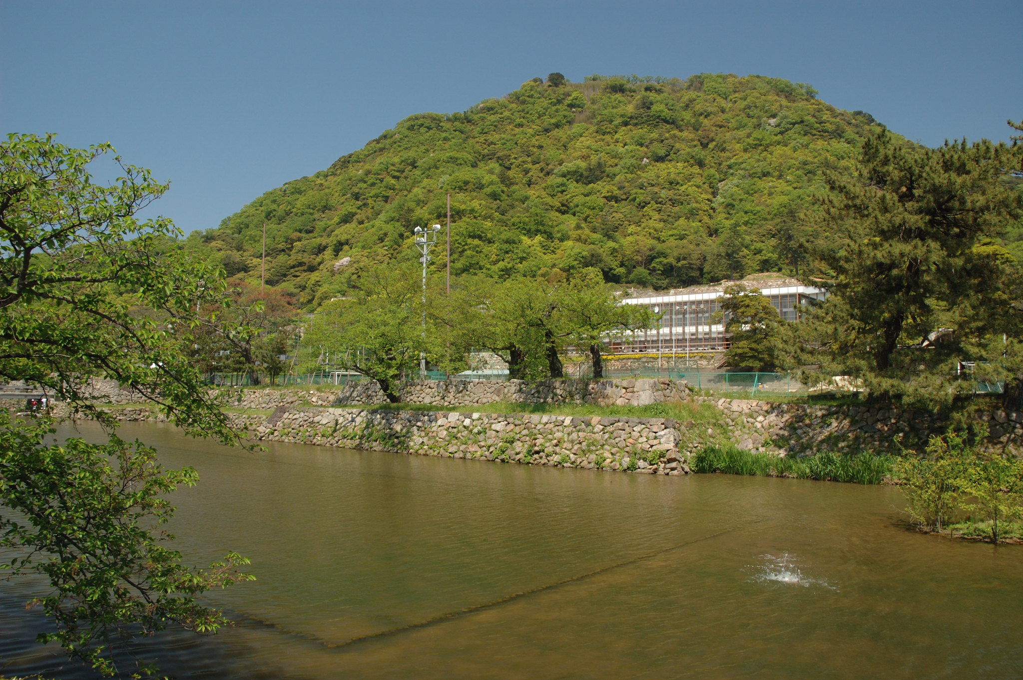 Tottori castle San-no-maru and Mt.Kyusho